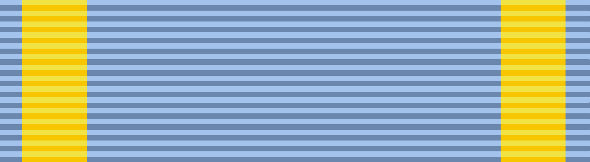 Ribbon bar of Order of Prince Yaroslav the Wise